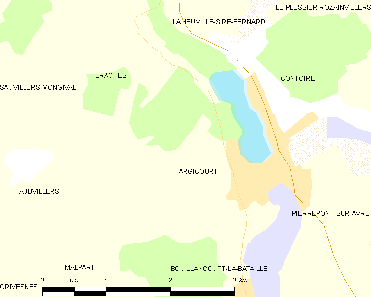 Map of French municipality Hargicourt